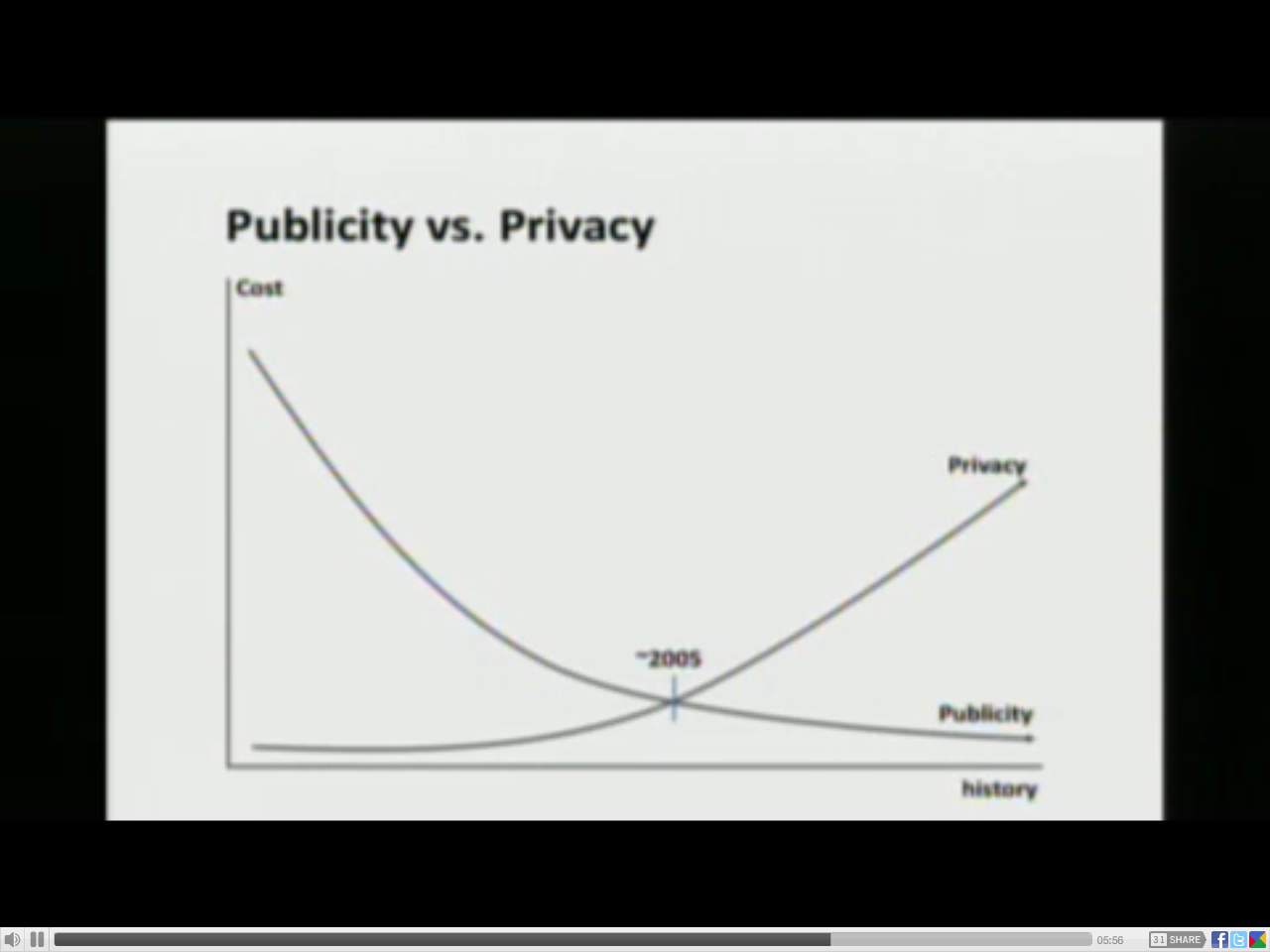 Cost of privacy vs. publicity inversion point